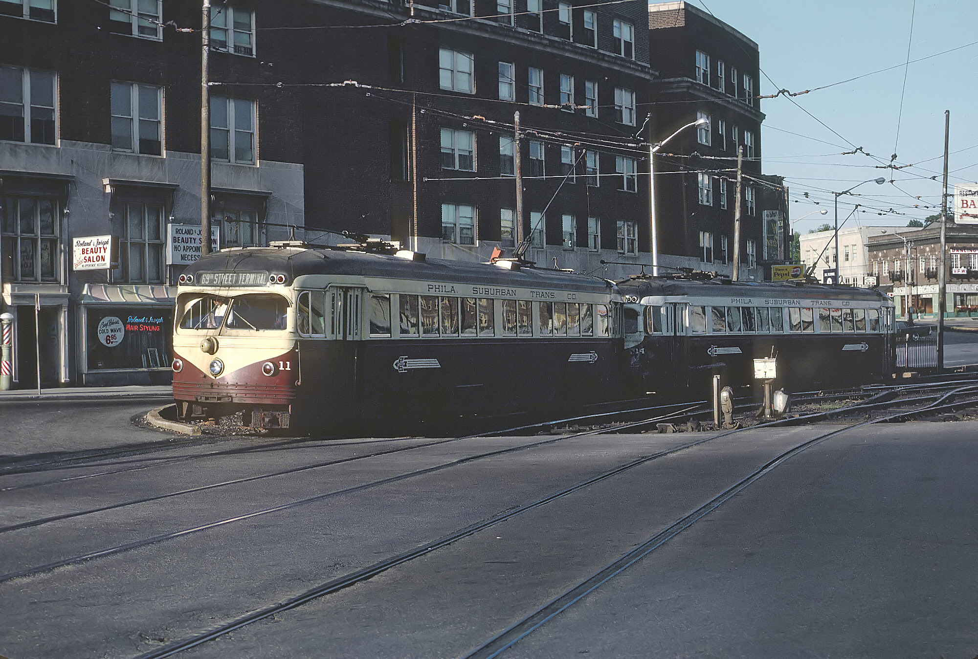 PSTC = Philadelphia Suburban Transportation Co. also known at the Red Arrow Lines A Roger Puta photograph